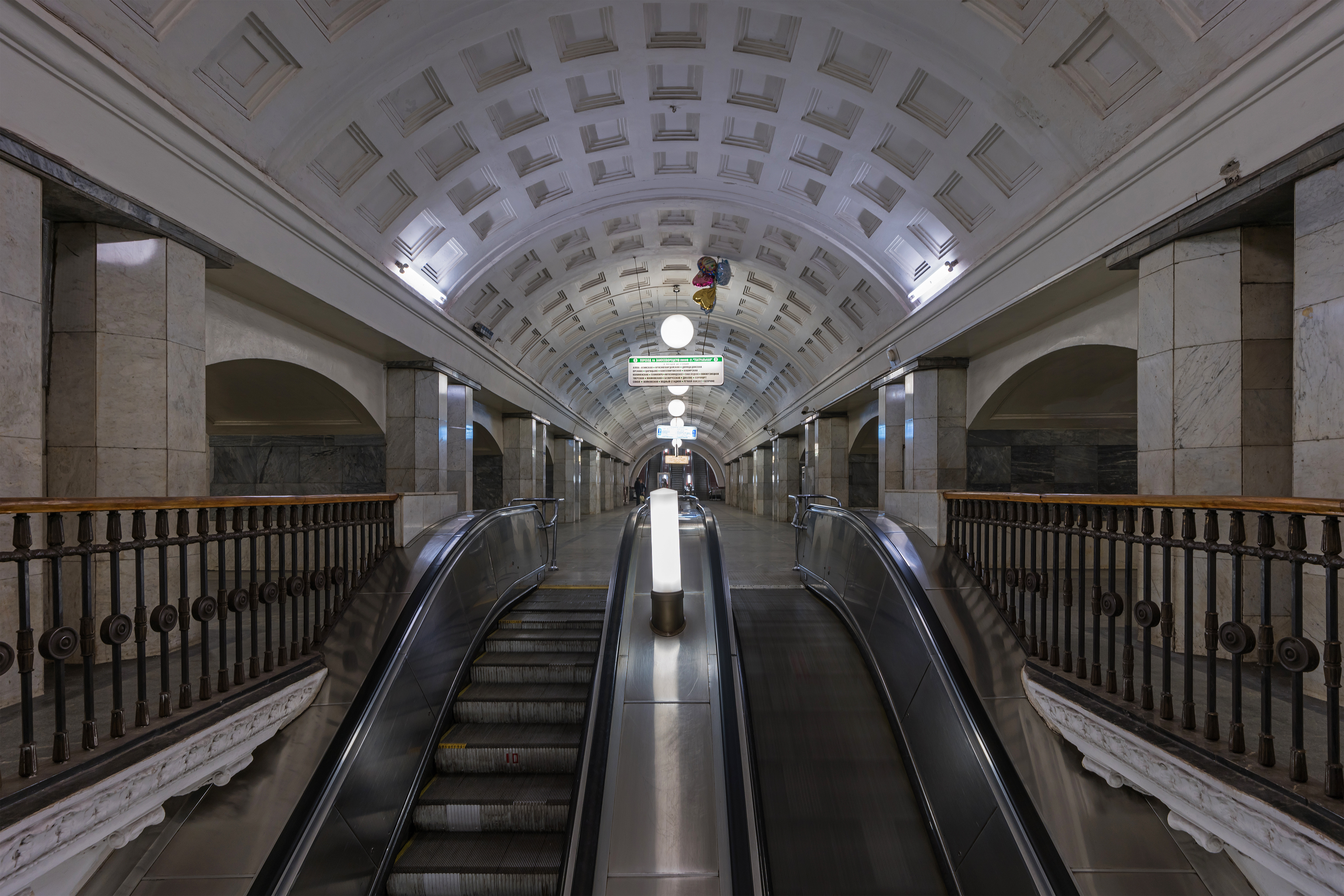 Okhotny Ryad metro station in Moscow